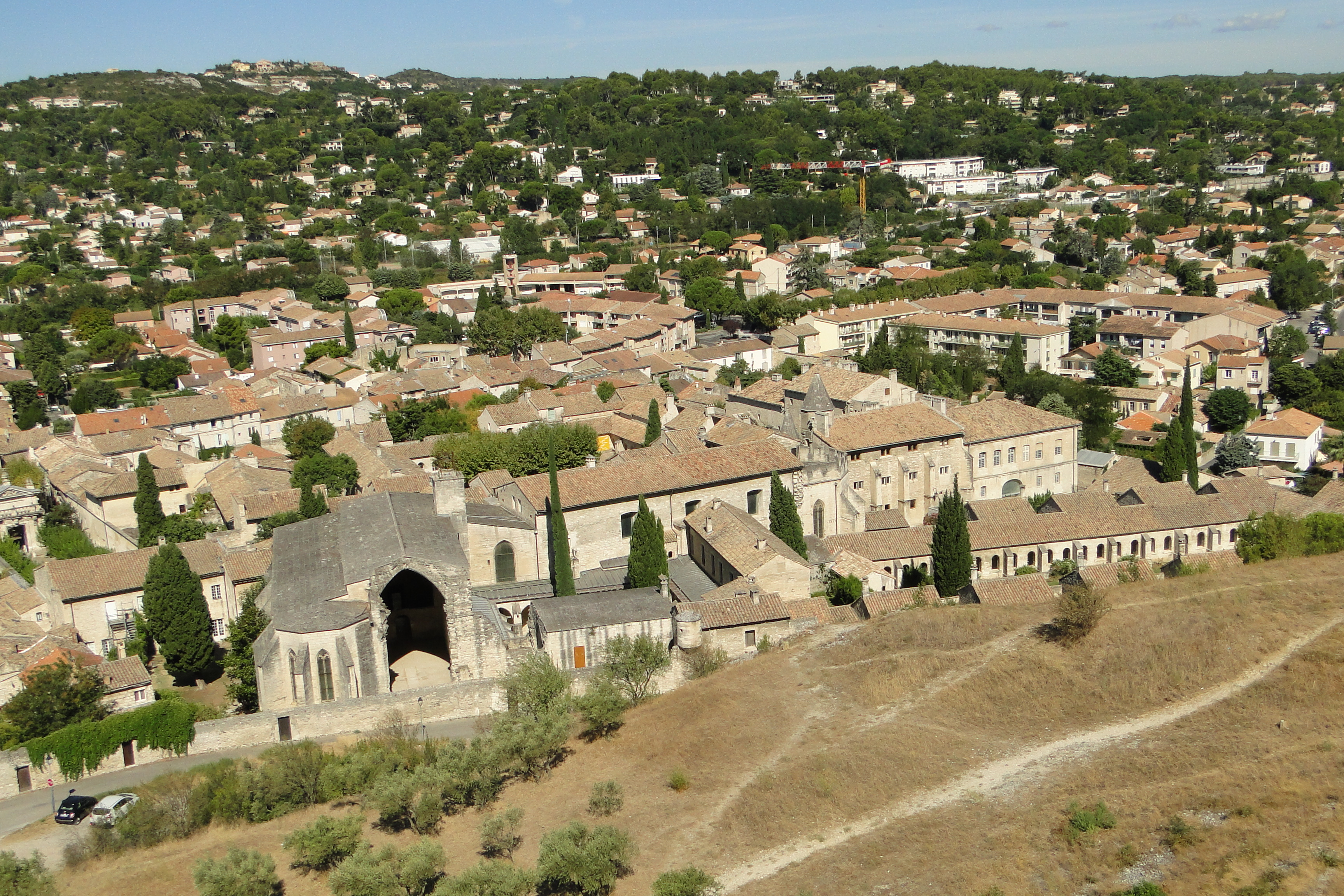 The Chartreuse du Val de Bénédiction from Fort Saint-André